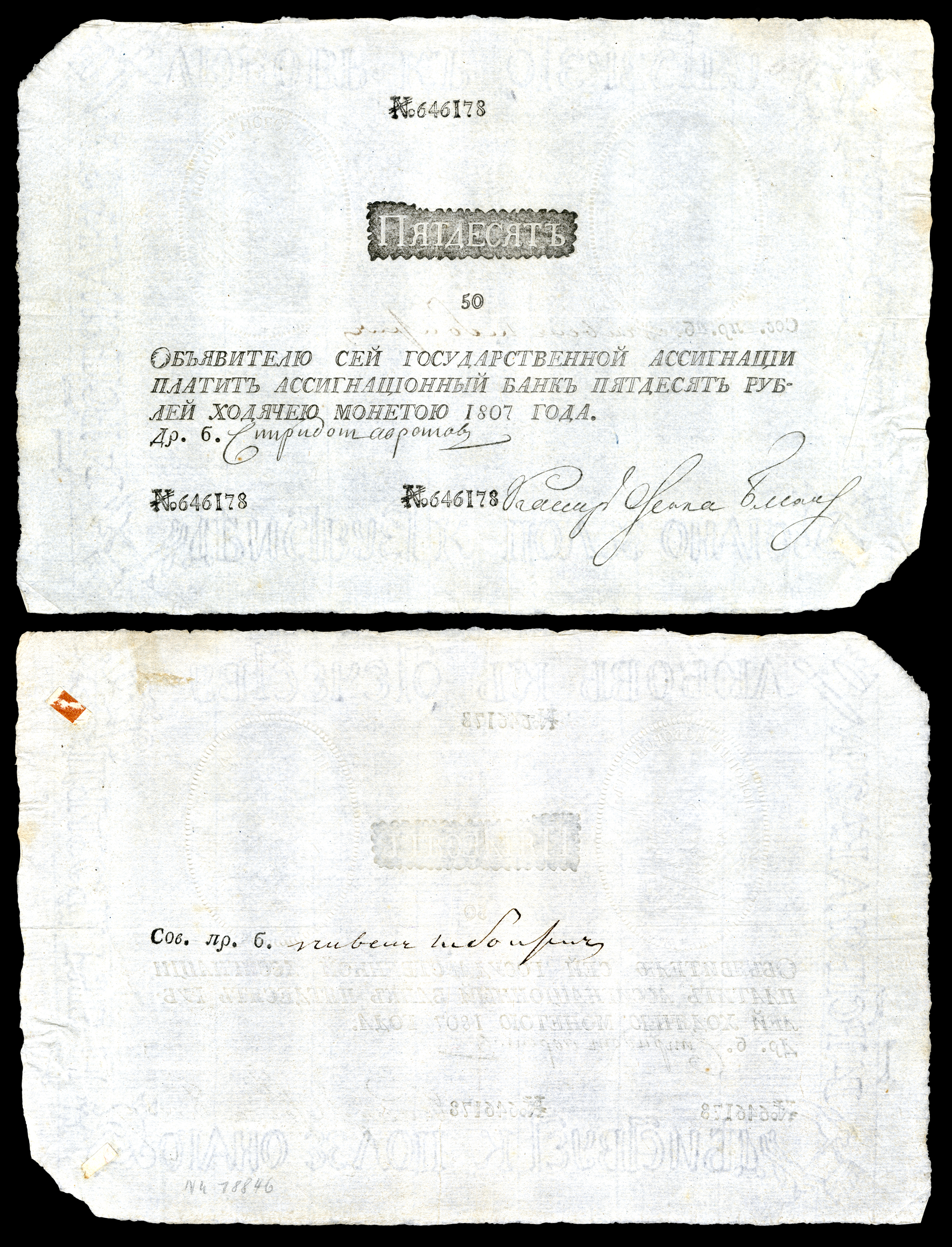 State Assignation ruble issued in 1807 by the Saint Petersburg Russian Assignation Bank, 50 Rubles. Three issuing autograph signatures, two on the obverse, one on the reverse.Remaining mounting hinge on reverse upper left.